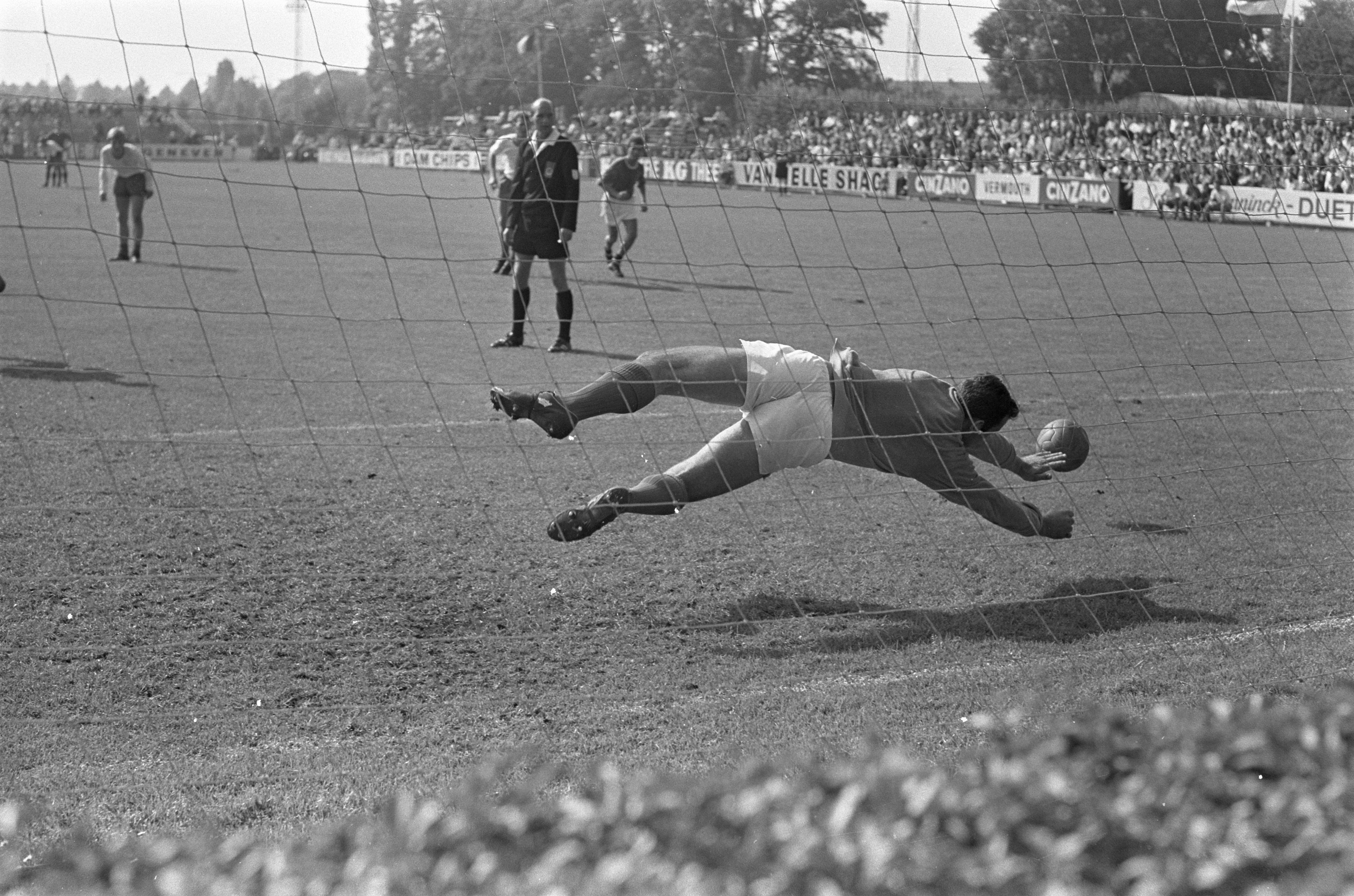 Dutch goalkeeper Piet Paternotte (Ajax, Blauw-Wit, Haarlem) stops penalty. Match Blauw-Wit-Vitesse, 1-2, 25 August 1968